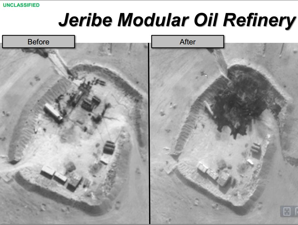 Slide presentation from Department of Defense Press Briefing by Rear Adm. Kirby in the Pentagon Briefing Room. Fighter aircraft from Saudi Arabia, United Arab Emirates and the United States attacked modular oil refineries in eastern Syria controlled by the Islamic State of Iraq and the Levant, Sept. 25, 2014.